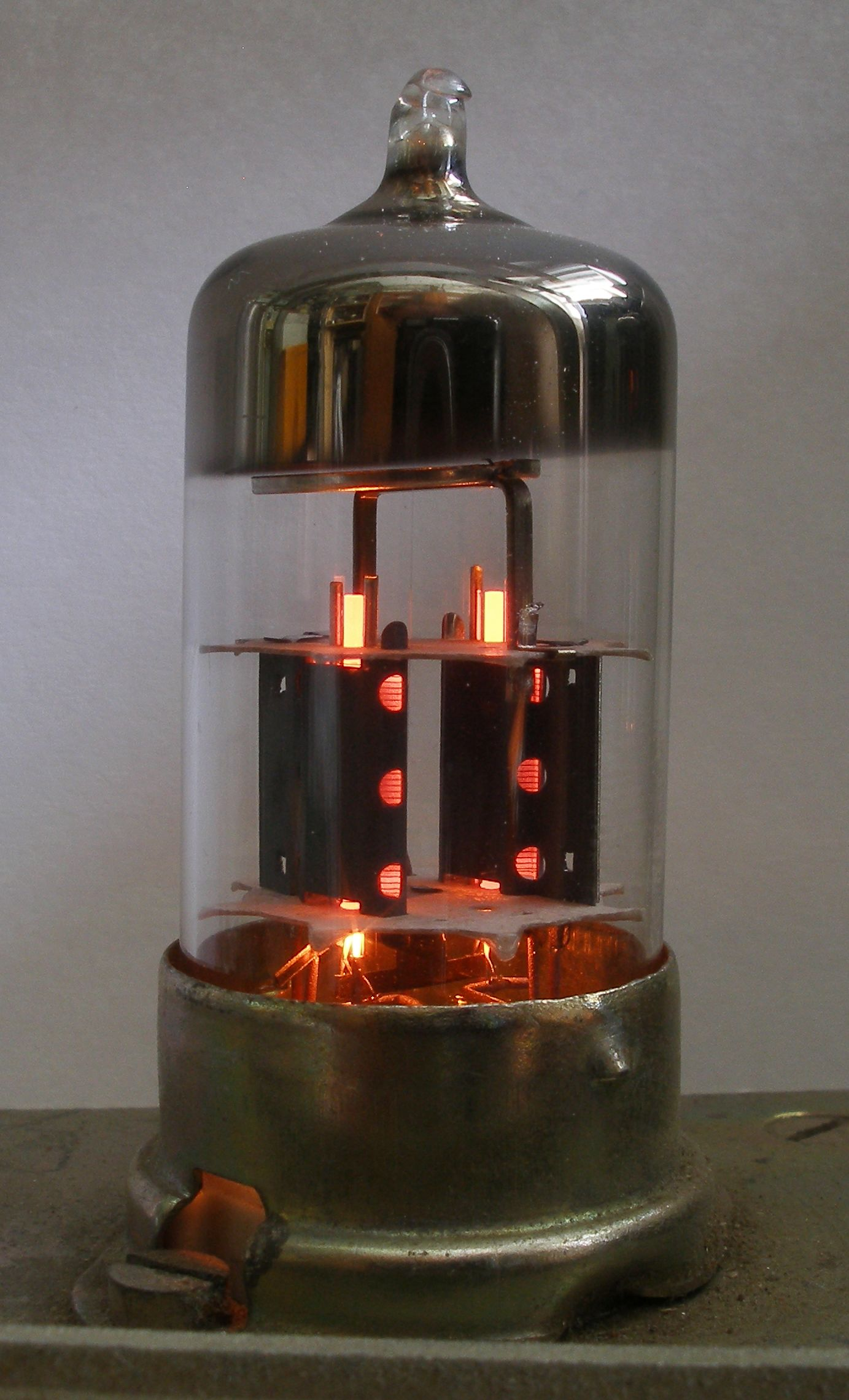 Working double triode TUNGSRAM ECC83.